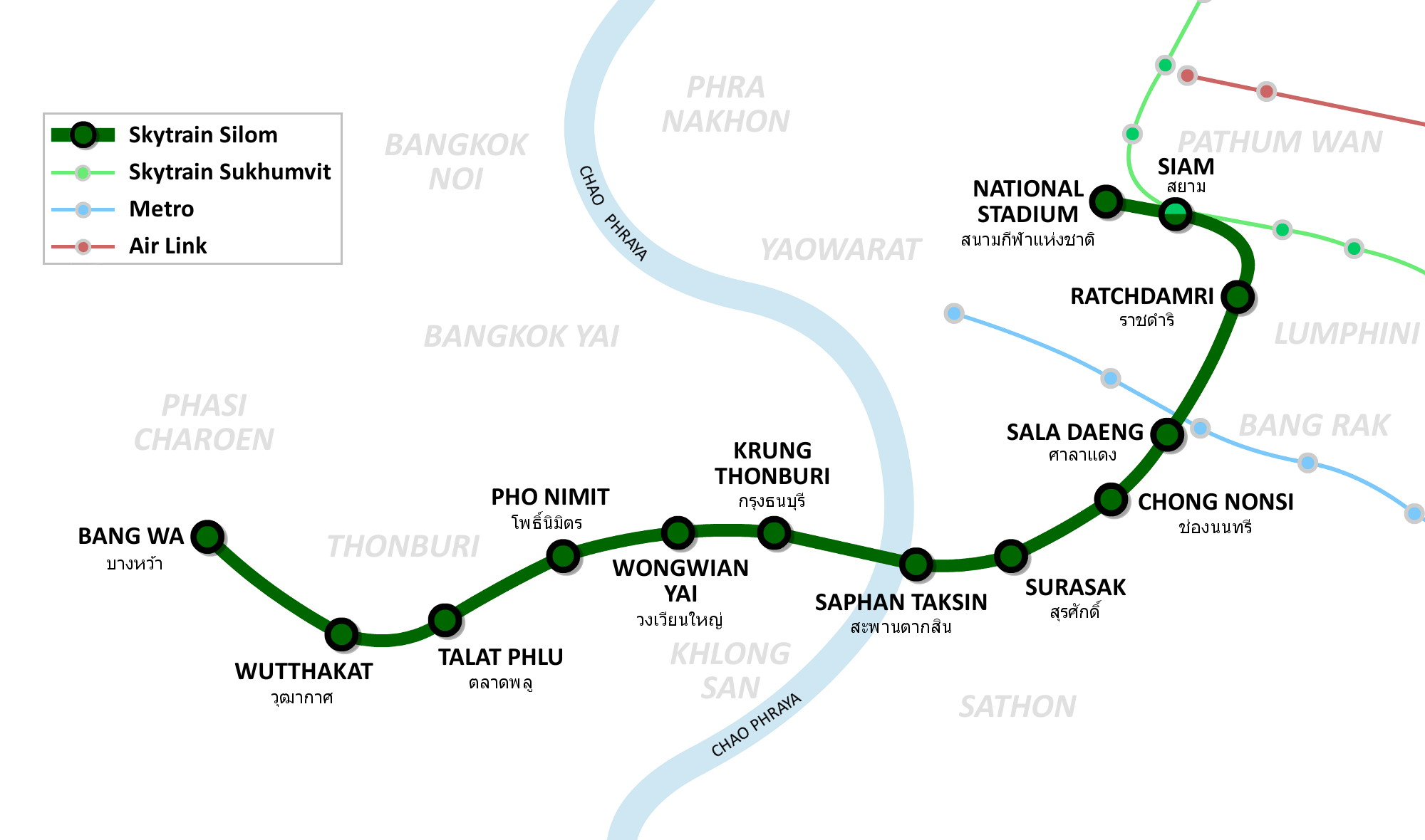 Skytrain Silom line, Bangkok, Thailand